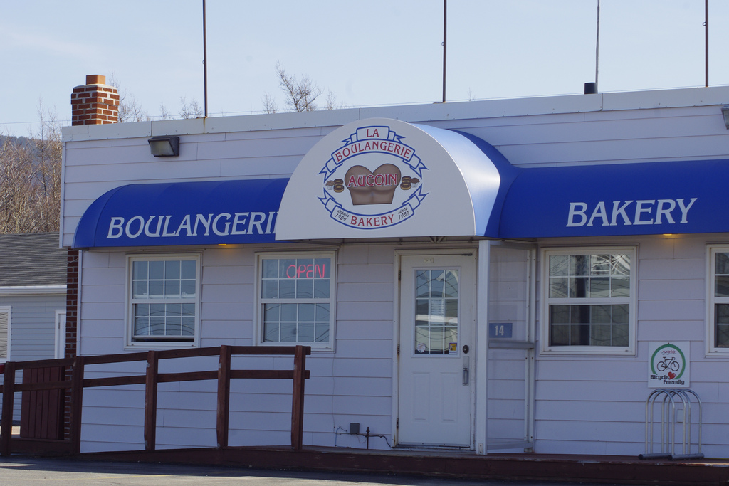 Aucoin bakery in Chéticamp.